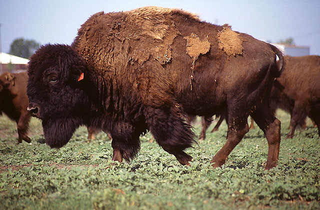 This American Bison is part of a 13-head herd involved in a brucellosis vaccine study at the National Animal Disease Center in Ames, Iowa.